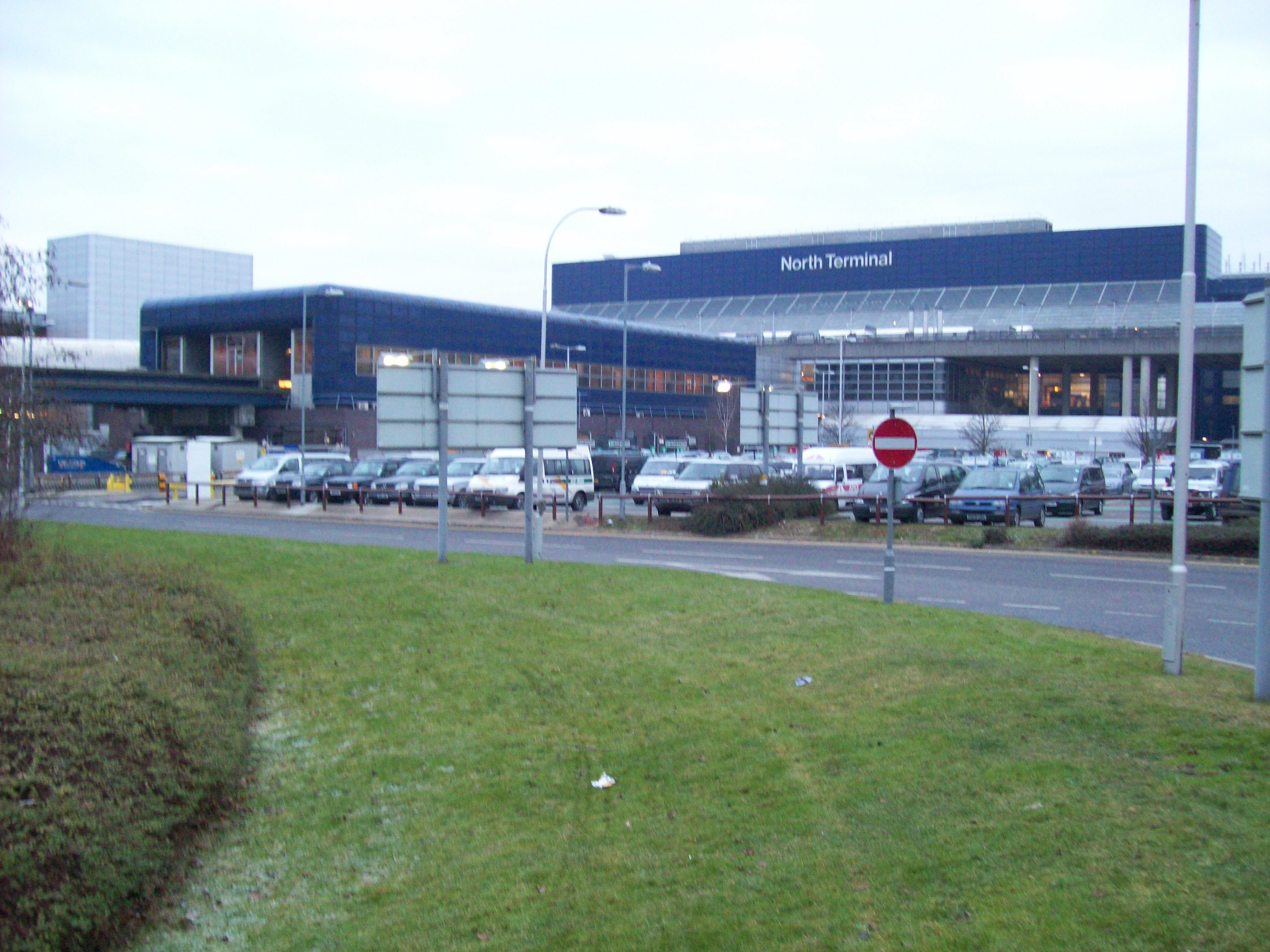 Gatwick's North Terminal building and transit station. This area has been heavily remodelled since this photograph was taken, and is hardly recognisable. The transit station has been replaced, and the space between the road in the foreground and the terminal frontage is now under an open-sided but overall roof.